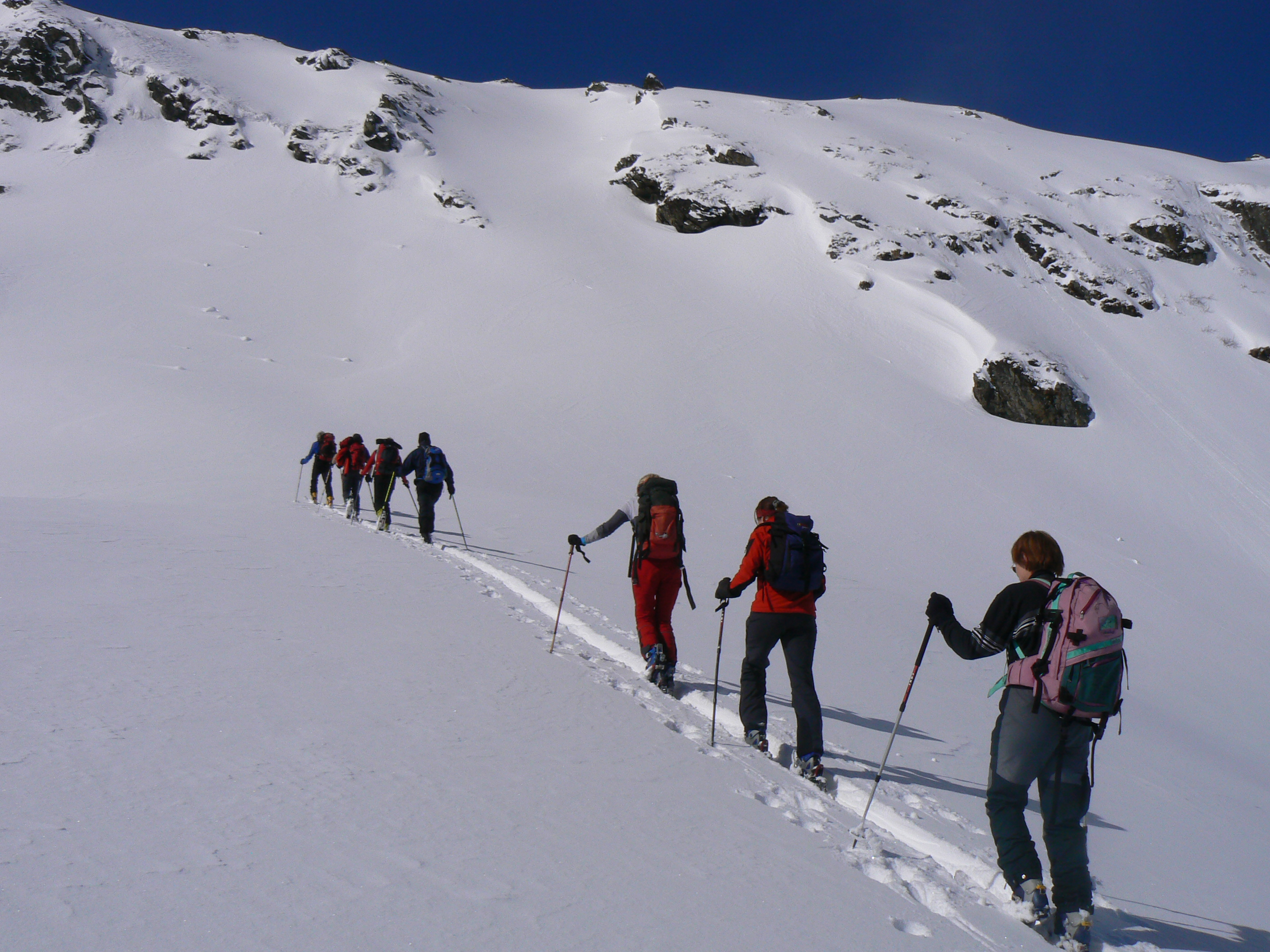 Wildkar, Rohrmoos-Untertal, Styria, Austria